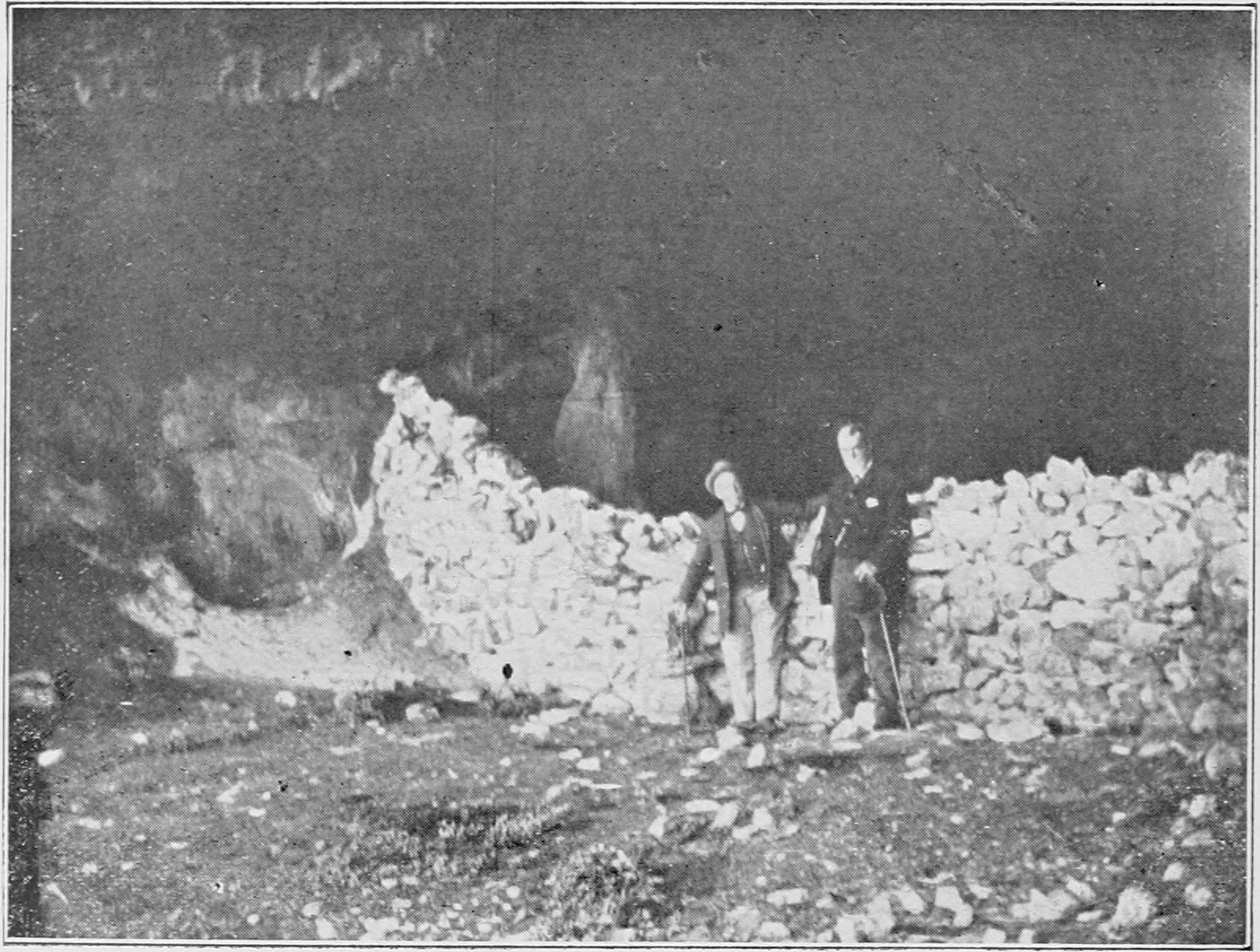 Grotta di Polifemo, interior, from Samuel Butler's prose translation of The Odyssey (1900)